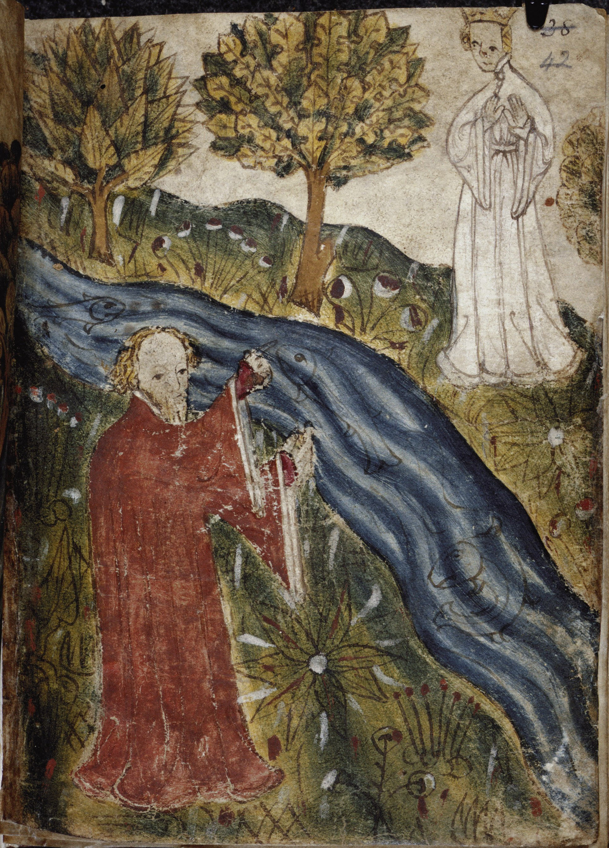 Illustration to an English manuscript of Pearl, circa 1400. Pearl is an anonymous 14th-century poem, written in Middle English. The poem describes an allegorical dream/vision, and alludes to Jesus' parable of the Pearl. This painting is the third of a series of four miniatures illustrating prominent aspects of the vision: 1) falling asleep in this world; 2) wandering in a dream/vision garden; 3) encountering his guide, the Pearl maiden, on the far side of a river; 4) being shown the heavenly Jerusalem.